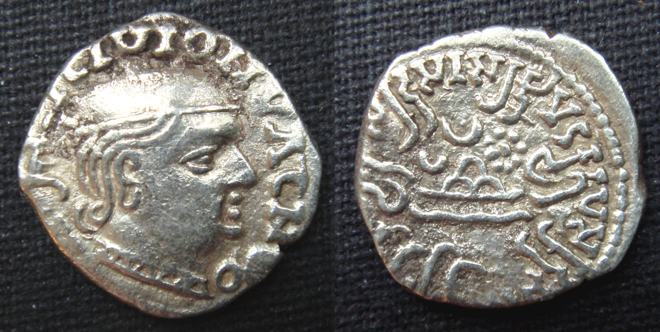 Silver coin of the Western Satrap ruler Rudrasena I. 2.0g. Date in Brahmi: 131 Saka era. Personal coin, personal photograph.